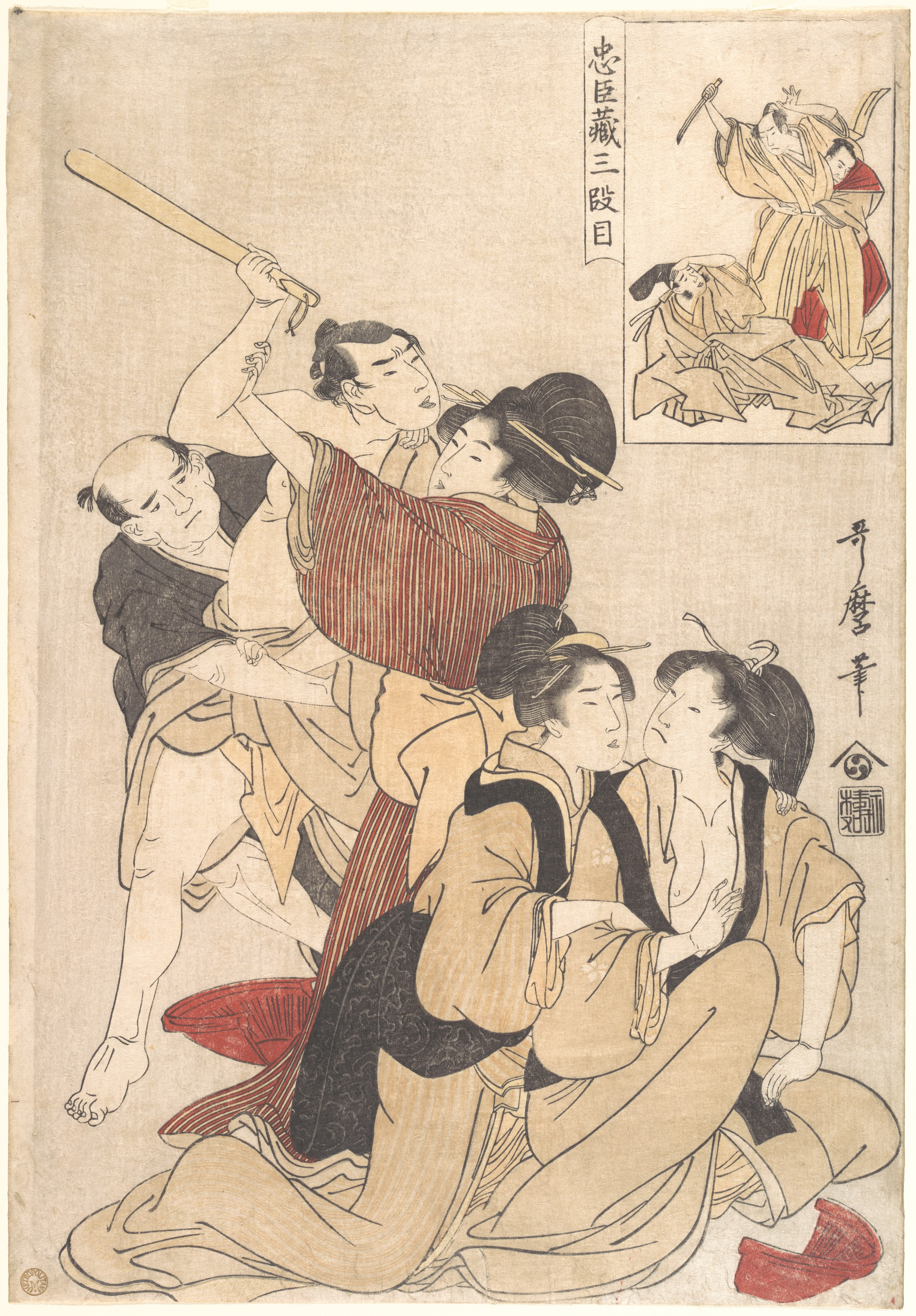 Man Trying to Assault an Older Woman With a Pestle While Others Restrain Him - Act Three in the series Chūshingura